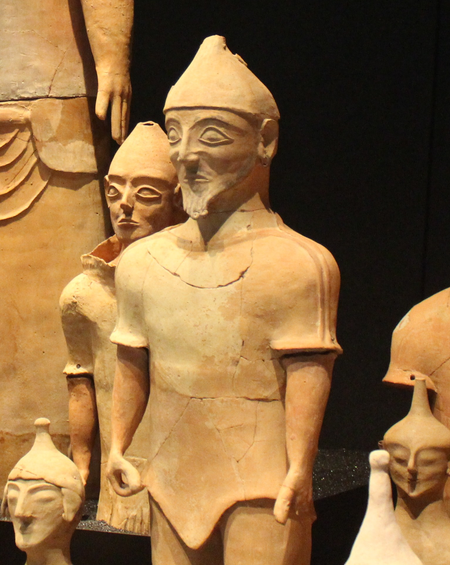 Votives. Terracotta figurines from Ajia Irini, Cyprus This is a photo of an artwork at the Mediterranean Museum in Sweden with the identifier: Votives